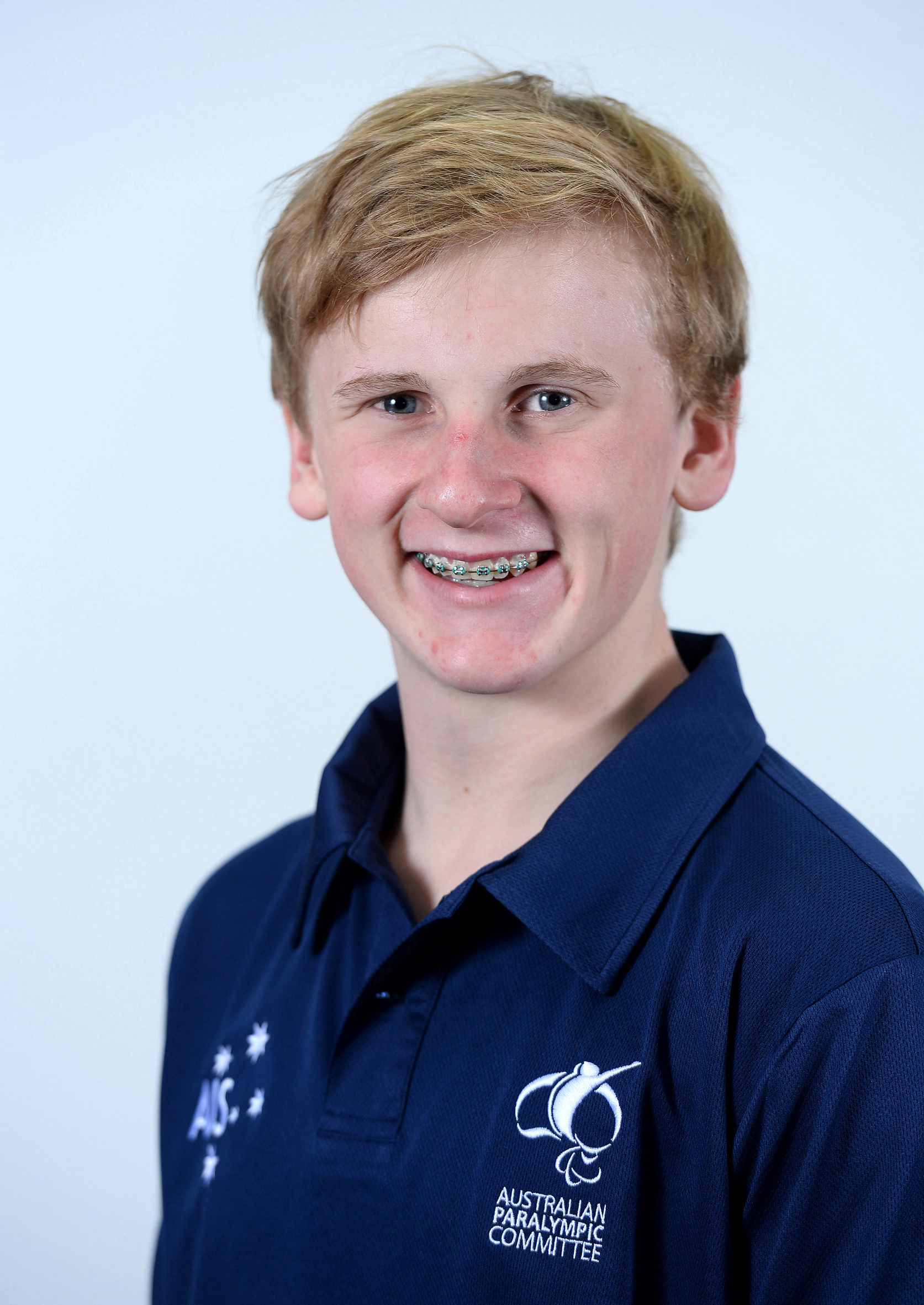 Portrait photograph of Liam Bekric taken at team processing session for shadow members of 2016 Australian Paralympic team